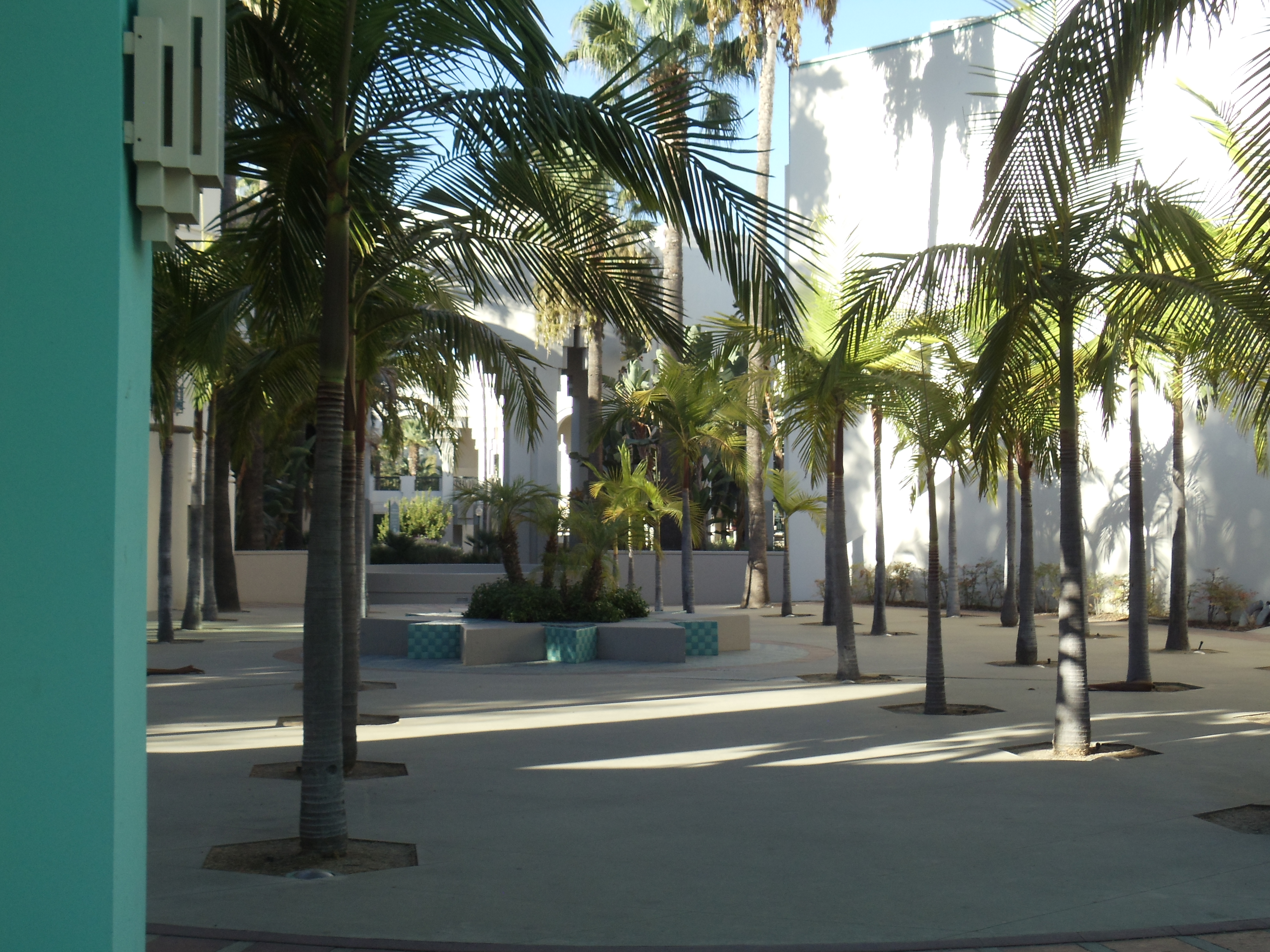 The courtyard inside the Beverly Hills Civic Center in Beverly Hills, California